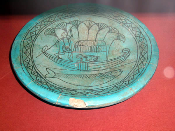 Egyptian faience plate, found in tomb 66 at Enkomi (British Museum)